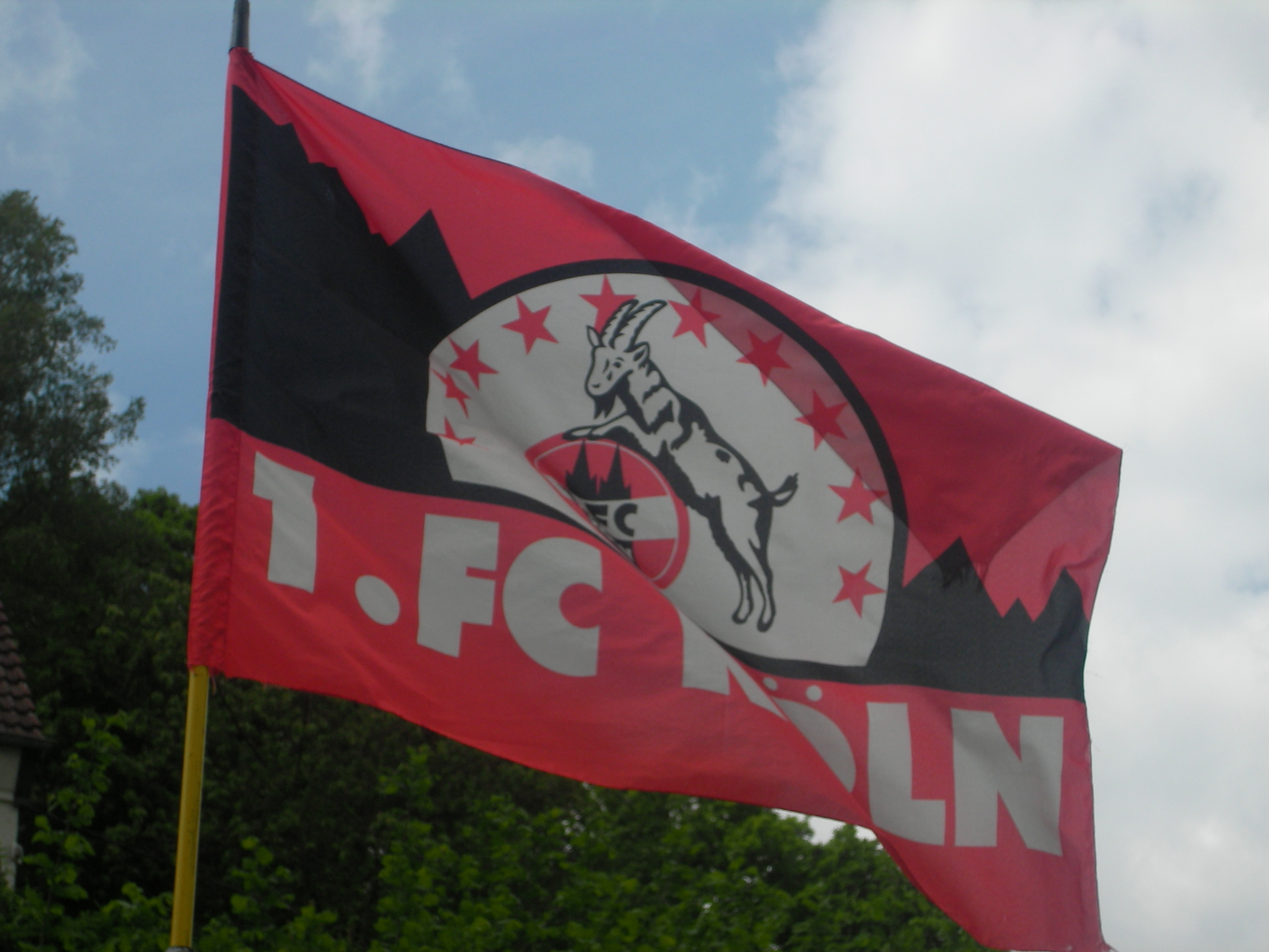 FC from Cologne